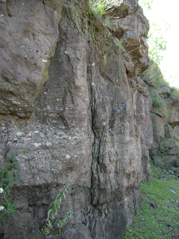 Sandstone cliff seen on Goffle Hill, part of First Watchung Mountain, in Hawthorne.